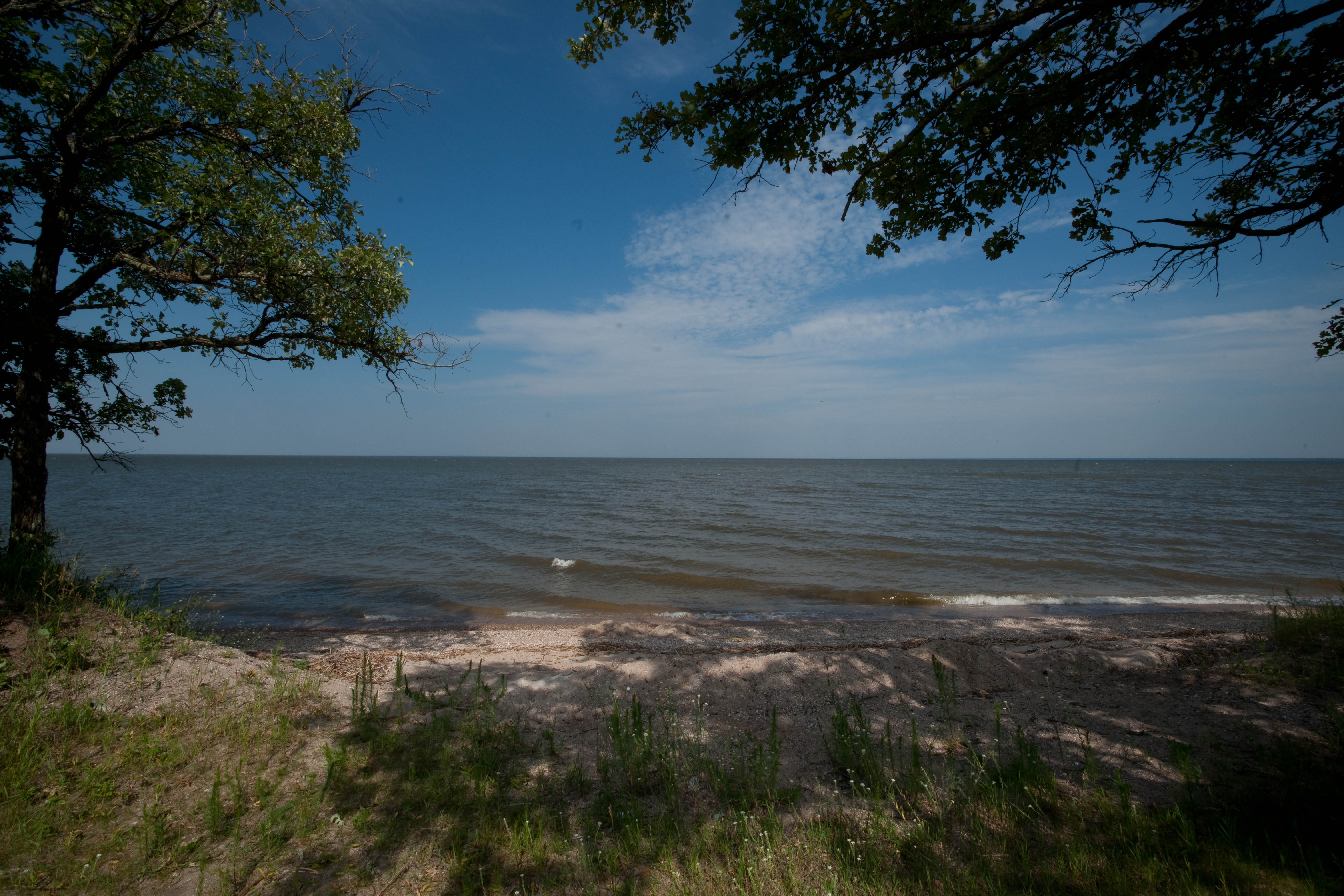 Lower Red Lake, Minnesota